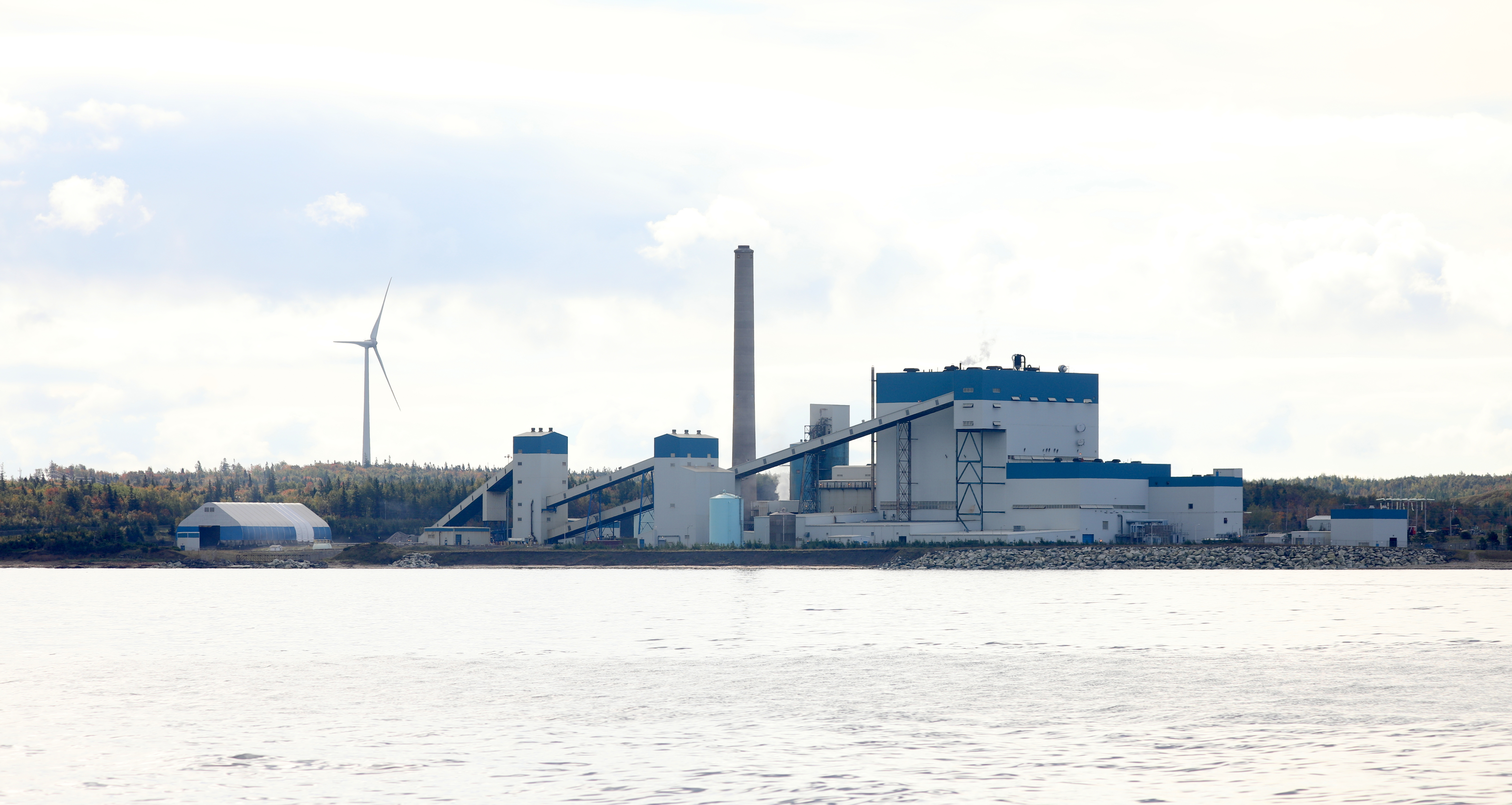 Point Aconi Generating Station seen from the Cabot Strait off of Cape Breton Island, Nova Scotia, Canada. The Point Aconi Generating Station is a 165 MW Canadian electrical generating station located in the community of Point Aconi, Nova Scotia, a rural community in the Cape Breton Regional Municipality. A thermal generating station, the Point Aconi Generating Station is owned and operated by Nova Scotia Power Corporation. It opened on August 13, 1994 following four years of construction. The Point Aconi Generating Station is situated on the shores of the Cabot Strait at the northeastern tip of Boularderie Island, located approximately 2 km (1.2 mi) west of the headland named Point Aconi and 2 km (1.2 mi) east of the headland named Table Head. Its civic address is 1800 Prince Mine Rd, Point Aconi, NS. The facility is located at the northern terminus of Prince Mine Rd - Highway 162.